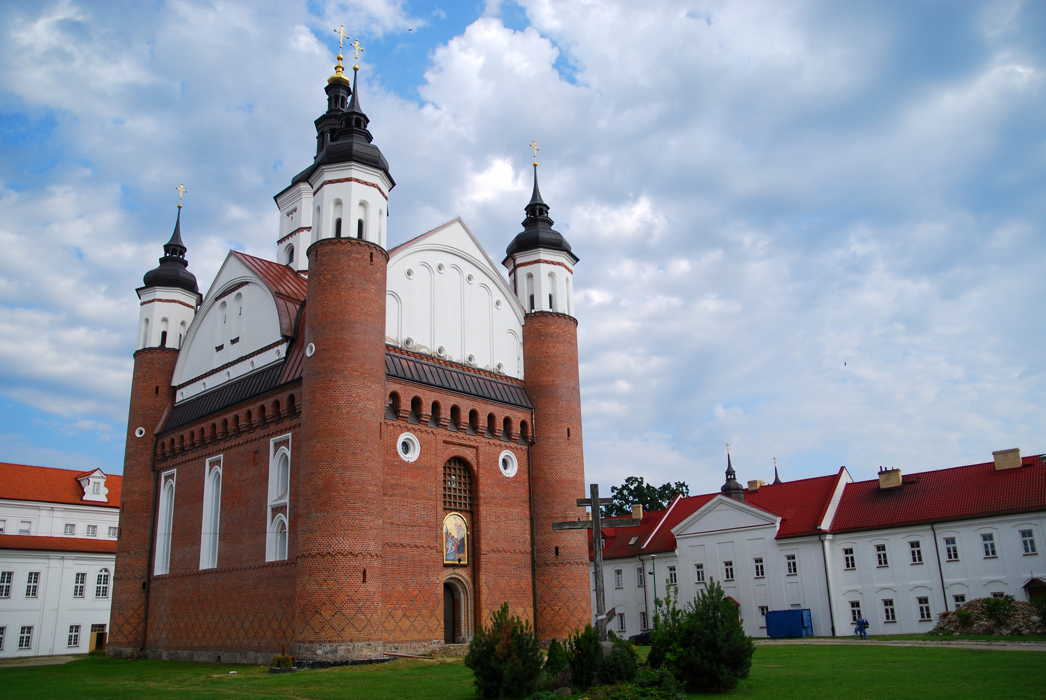 Cerkiew Zwiastowania NMP w Supraślu This photo from Podlaskie Voievodeship was taken during Polish Wikiexpedition 2009 set up by Wikimedia Polska Association. The making of this document was supported by Wikimedia Polska.